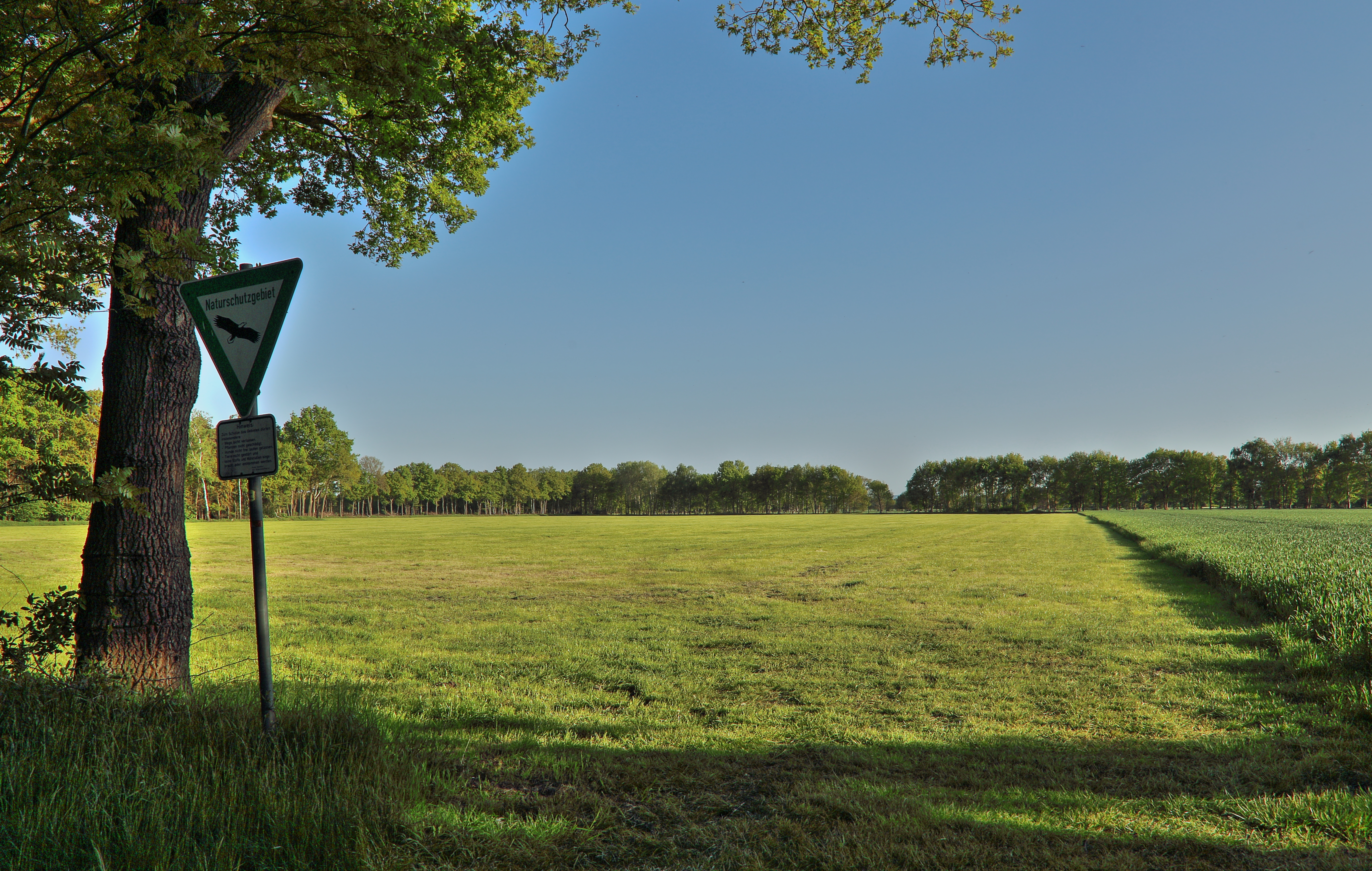 View of the nature reserve „Kreienfeld“ (Naturschutzgebiet Kreienfeld) near Hopsten-Halverde, Kreis Steinfurt, North Rhine-Westphalia, Germany.